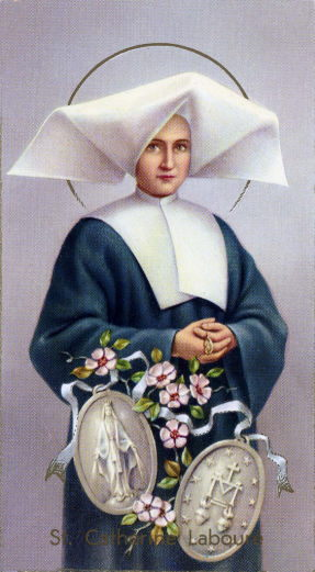 Picture of Catherine Laboure